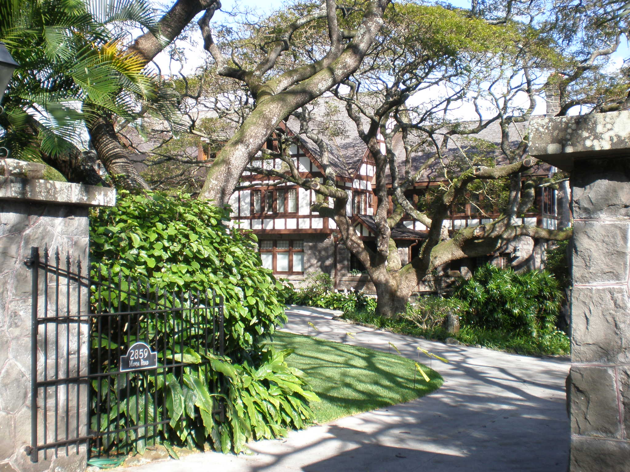 Charles Montague Cooke, Jr., House, 2859 Manoa Road, Honolulu, Hawaii, listed on the National Register of Historic Places.